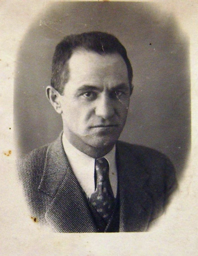 Ali Kelmendi portrait